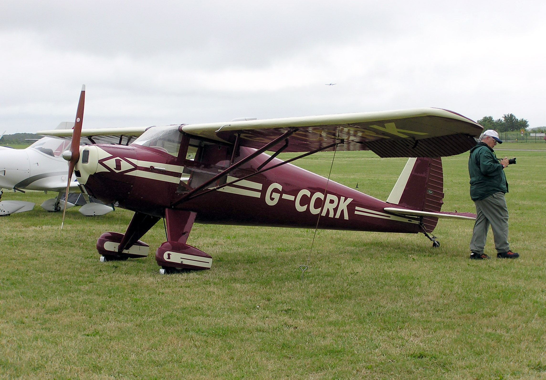 Luscombe Silvaire 8a (UK registration G-CCRK, date of build 1946) at Kemble Airfield, Gloucestershire, England. Photographed by Adrian Pingstone in July 2005 at a PFA Rally and released to the public domain.